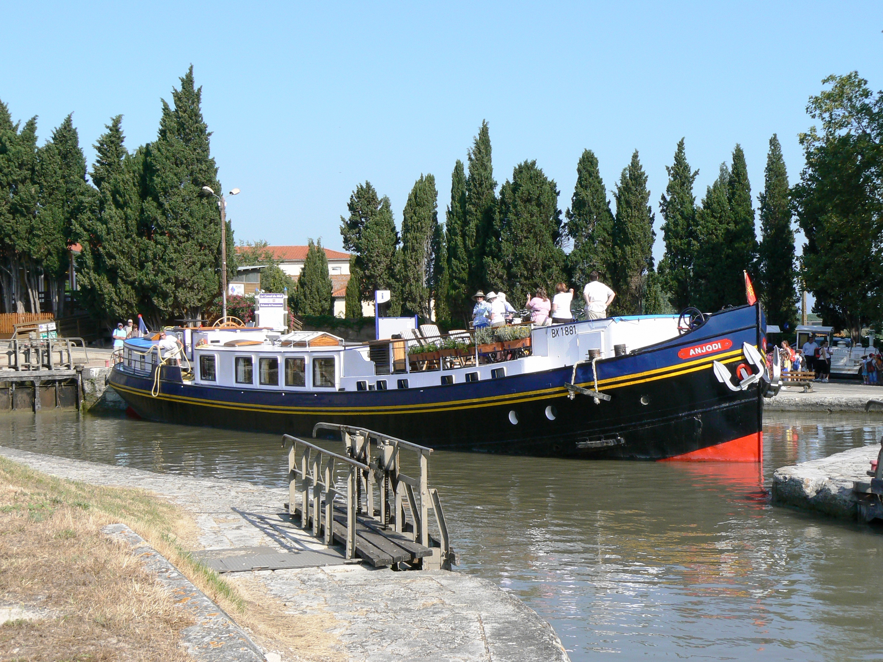 This is the Anjodi in Lock 7 in Beziers France.